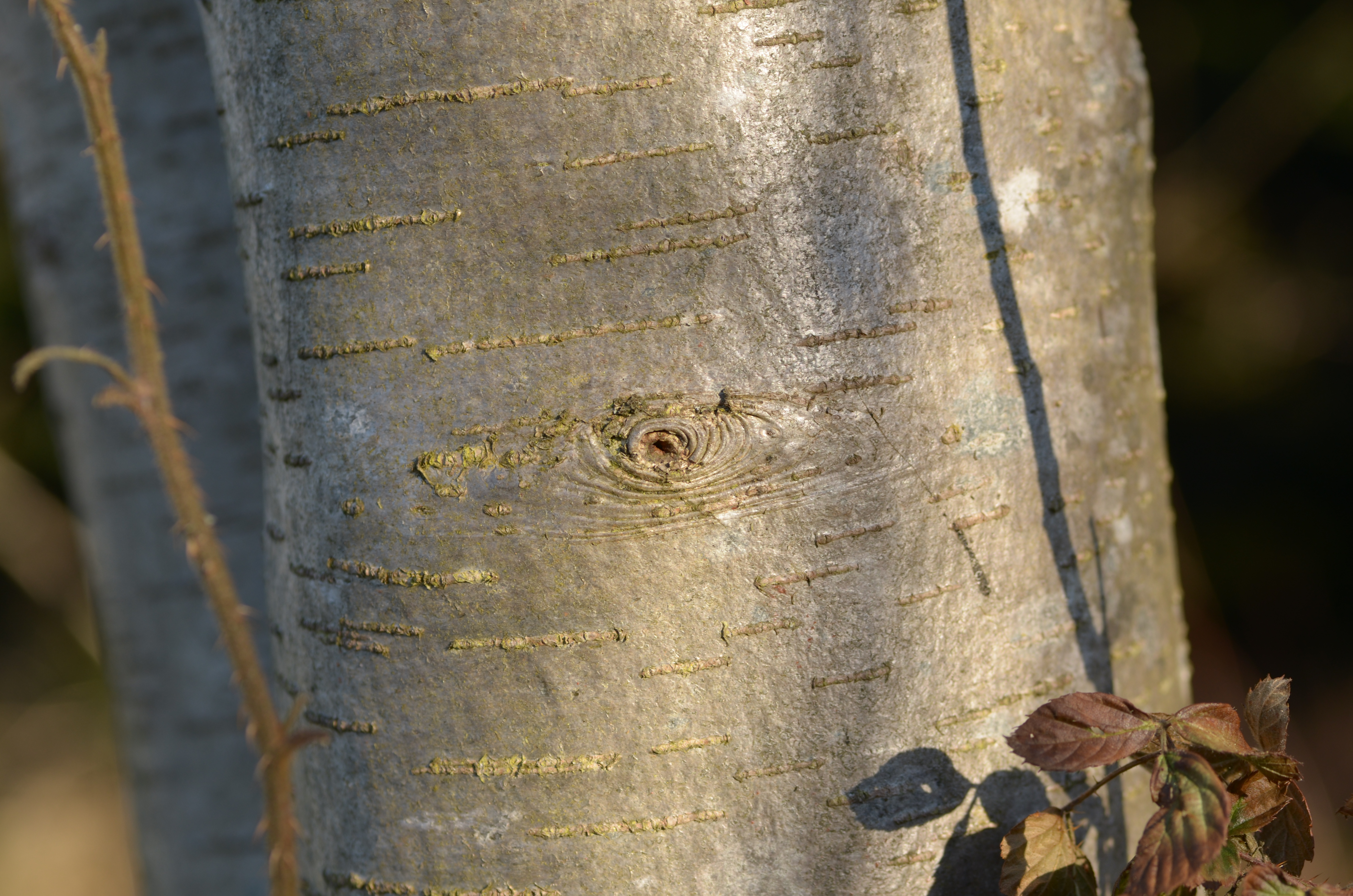 Radial lenticels on the trunk of a younger Sorbus aucuparia